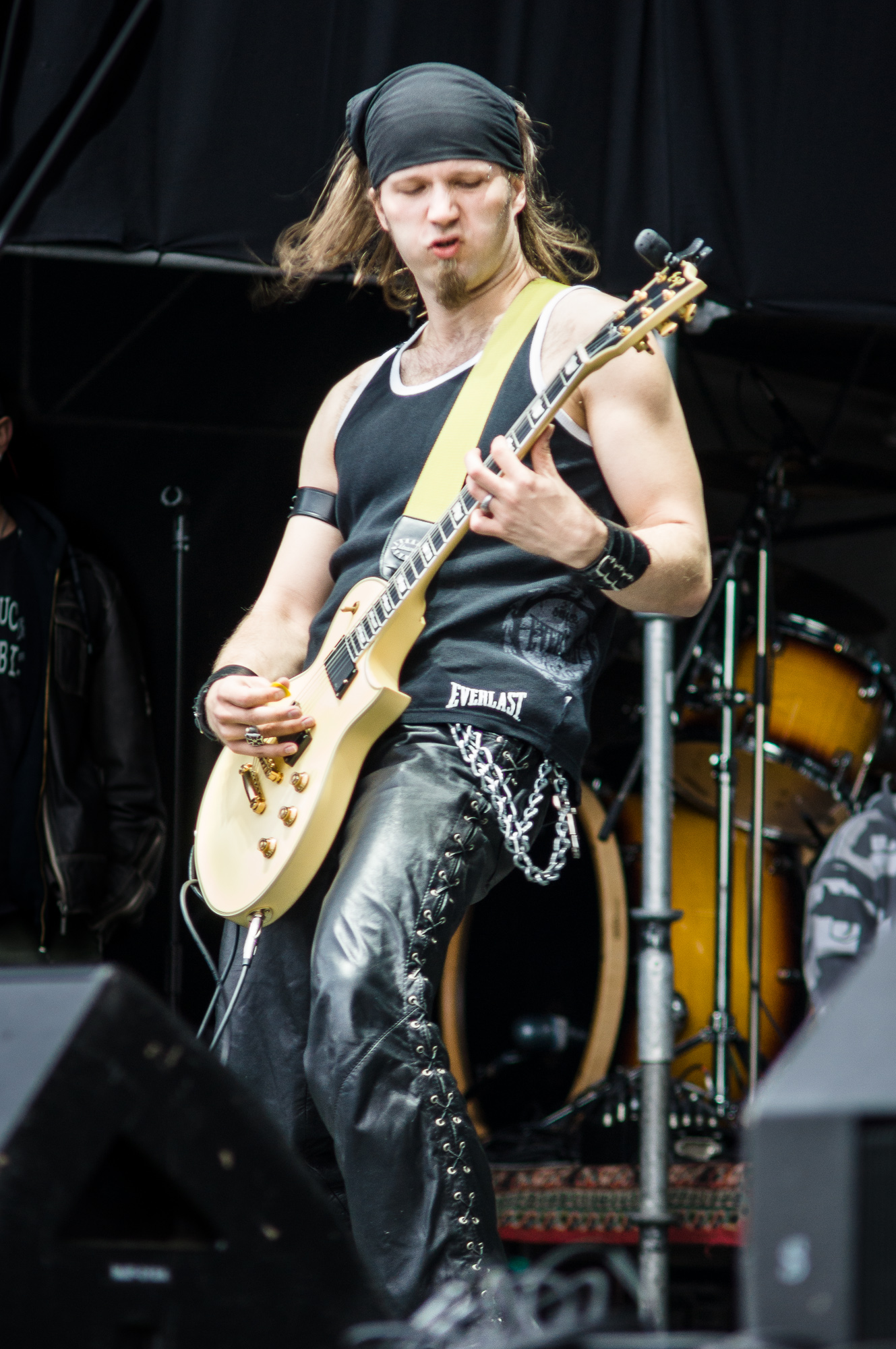 Patryk Gumkowski - gutarist of Ametria band. Ursynalia 2012, Warsaw, Poland.